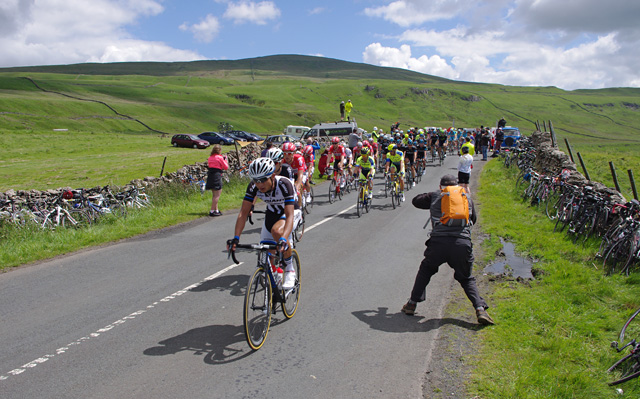 Tour de France 2014 - the peloton